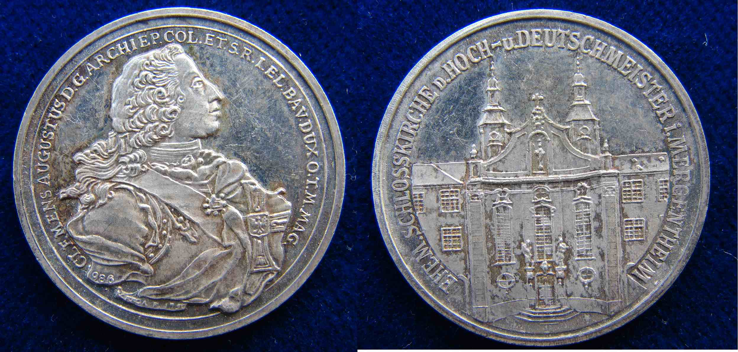 Clemens August von Bayern, 1700 Brüssel - 1761 Koblenz-Ehrenbreitstein. Hochmeister des Deutschen Ordens 1732 - 1761 20th Century Facsimile. D= 26 mm. 6.50 g Ag 0.986 Bust r., surrounding: "CLEMENS AUGUSTUS D. G. ARCHIEP. COL. ET S. R. I. EL. BAV. DUX O. T. MAG" / Chuch, around: "EHEM. SCHLOSSKIRCHE D. HOCH- u. DEUTSCHMEISTER i. MERGENTHEIM". Edge lettering: "BANKHAUS PARTIN & CO". Obverse: Wittelsbach 2022; Dudik 296; Forrer V p. 378. Medallist of the obverse: SCHEGA F. (Franz Andreas Schega), 1711 Rudolphwerth, Krain -1787 Munich, Bavaria, Germany. Condition : Nicely toned EXTREMELY FINE.